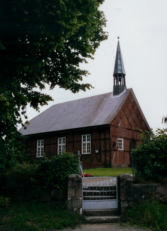 Picture shows the Marienkapelle in Schretstaken (Germany).